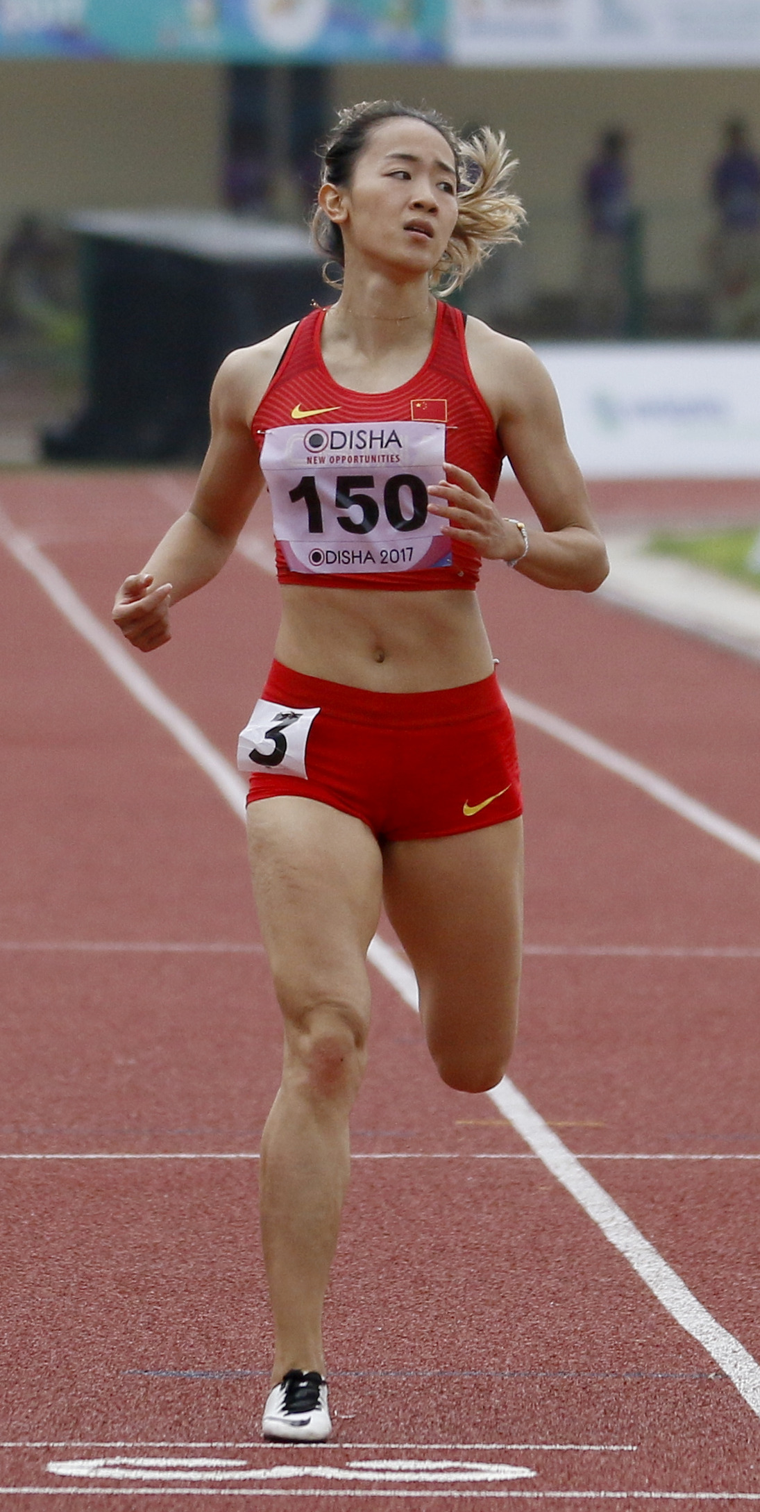 Athletes during 22nd Asian Athletics Championships in Bhubaneswar.